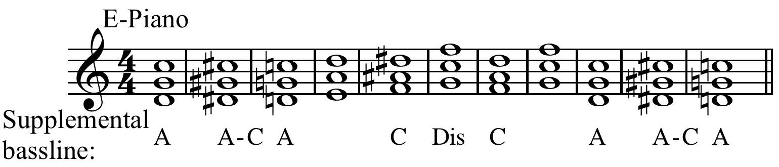 Fourths from Herbie Hancock's song "Maiden Voyage"